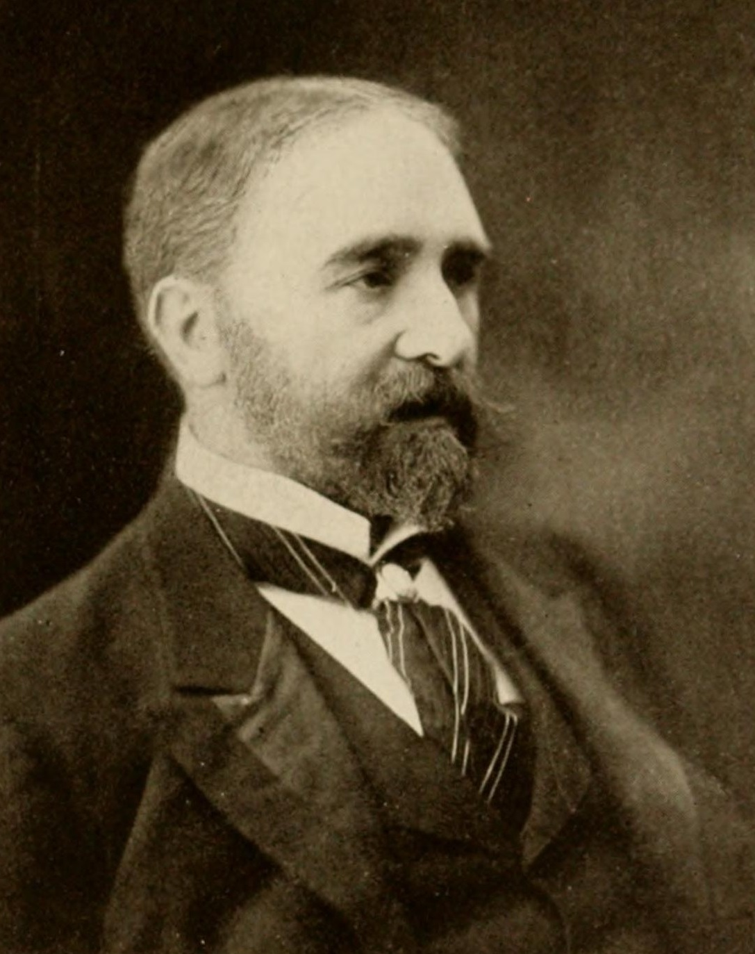 Portrait of Samuel Luke Fildes